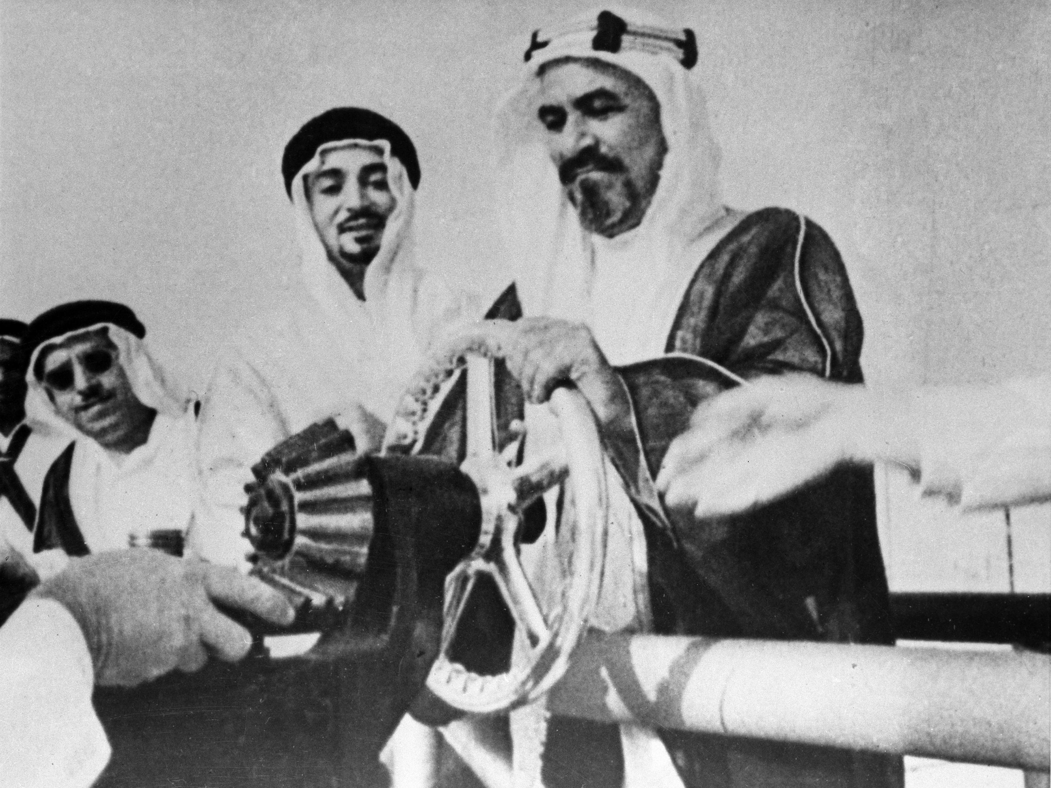 Amir Sheikh Ahmad Al-Jaber Al-Sabah turns the silver wheel to officially begin exporting the first Kuwaiti oil shipment, during a ceremony on 30th of June 1946.